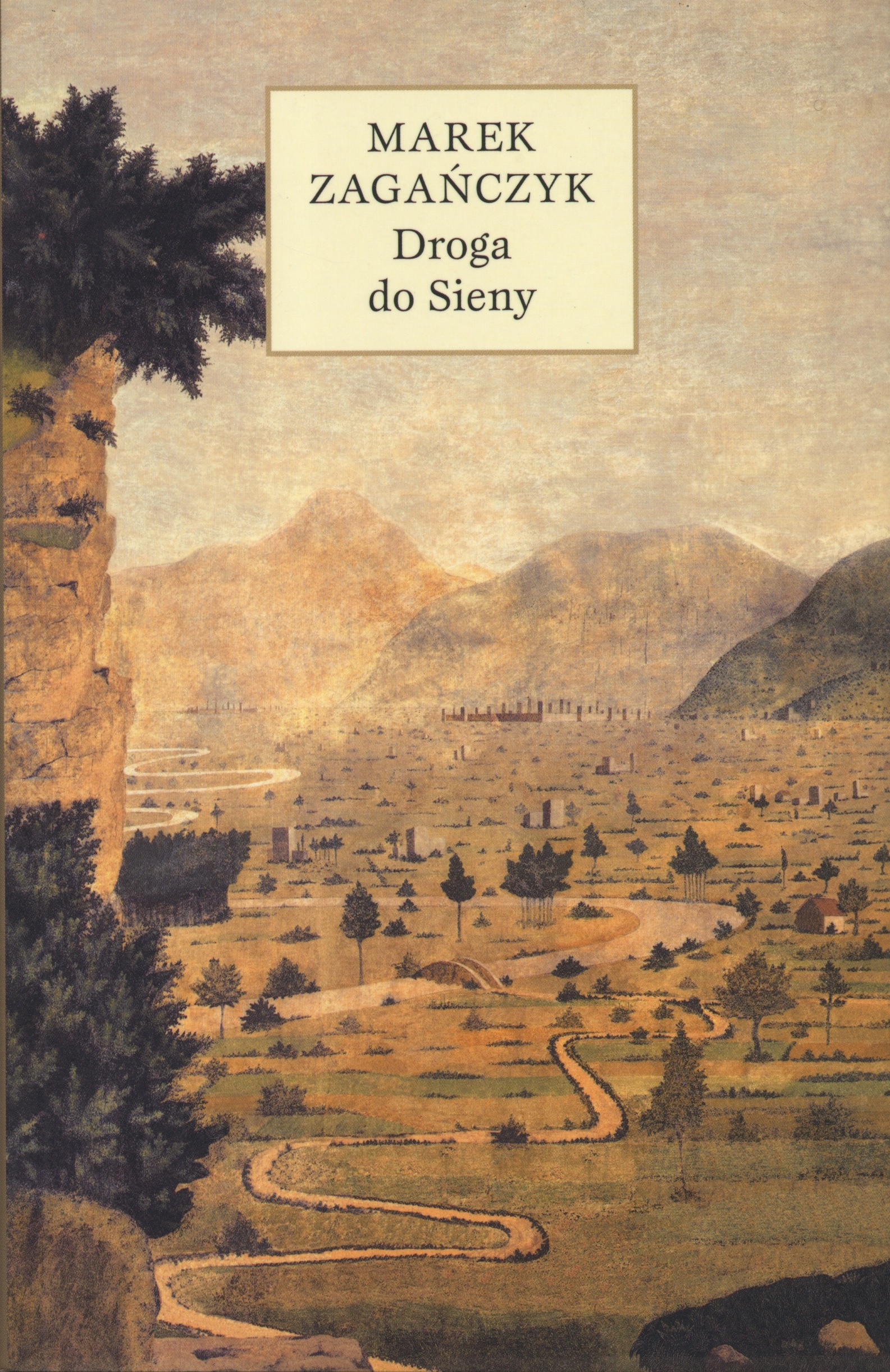 Marek Zagańczyk "Droga do Sieny" 2005